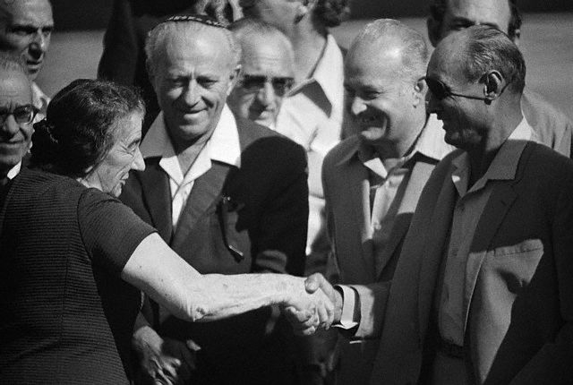 Israeli Prime Minister Golda Meir (left) shakes hands with Minister of Defense Moshe Dayan in Tel Aviv, Israel on Nov. 5, 1973. From the booklet "President Nixon and the Role of Intelligence in the 1973 Arab-Israeli War." For more information, visit